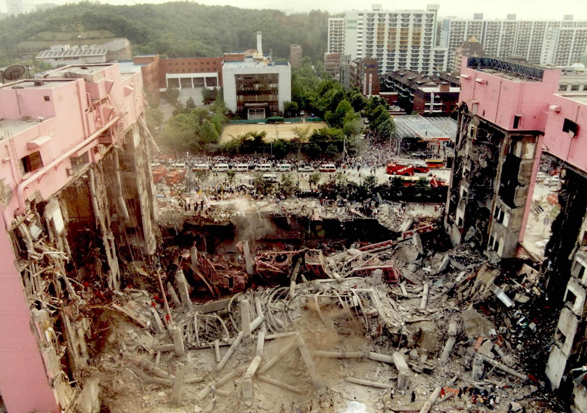 Sampoong Department Store Collapse